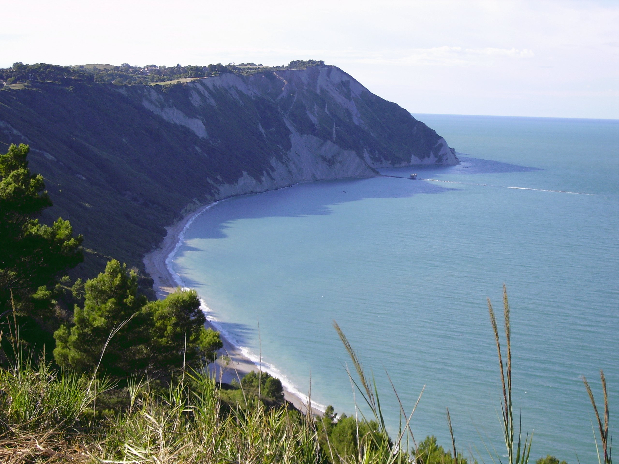 The Portonovo bay, the beach of Ancona